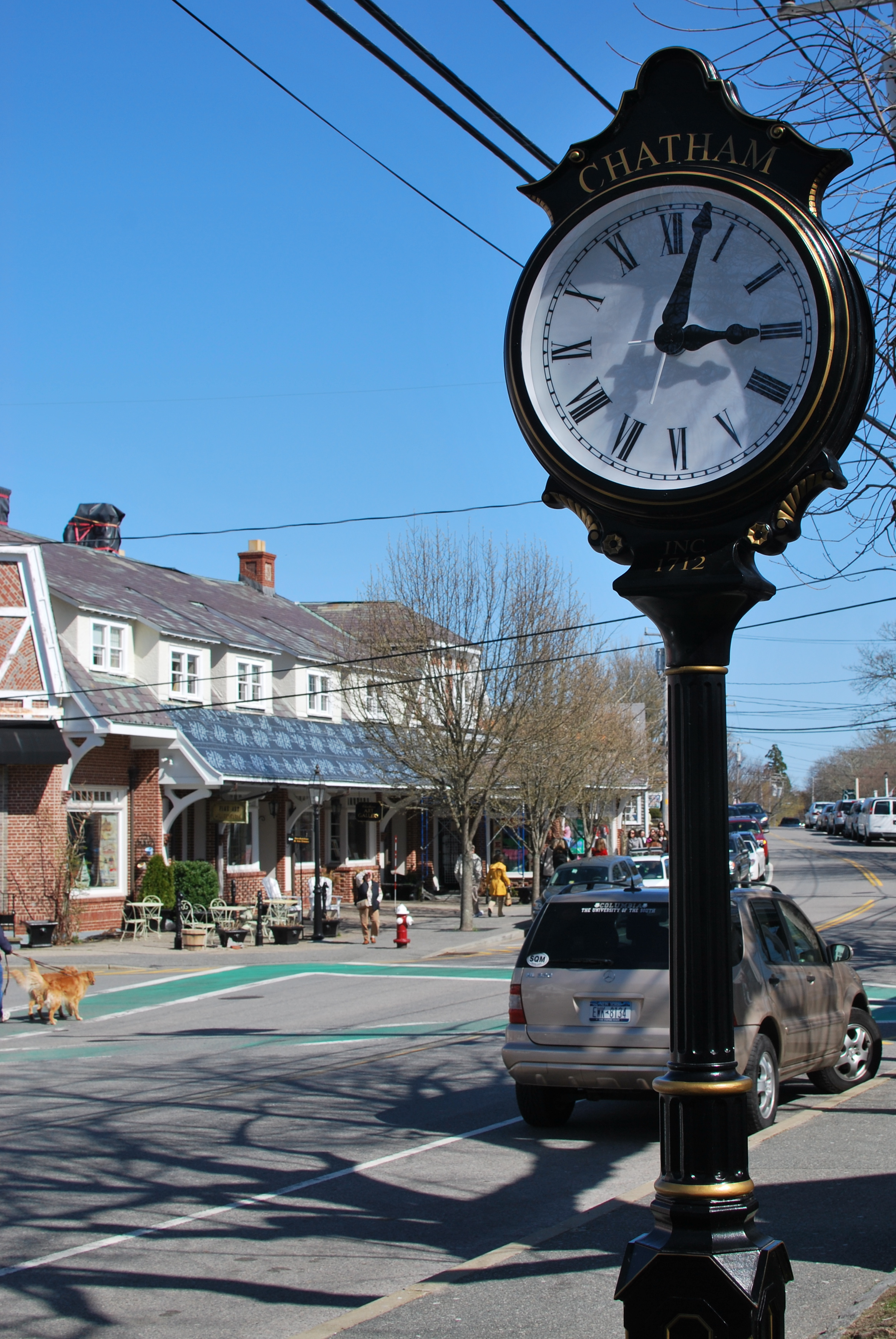 Street clock on Main Street in Chatham, MA April 2010